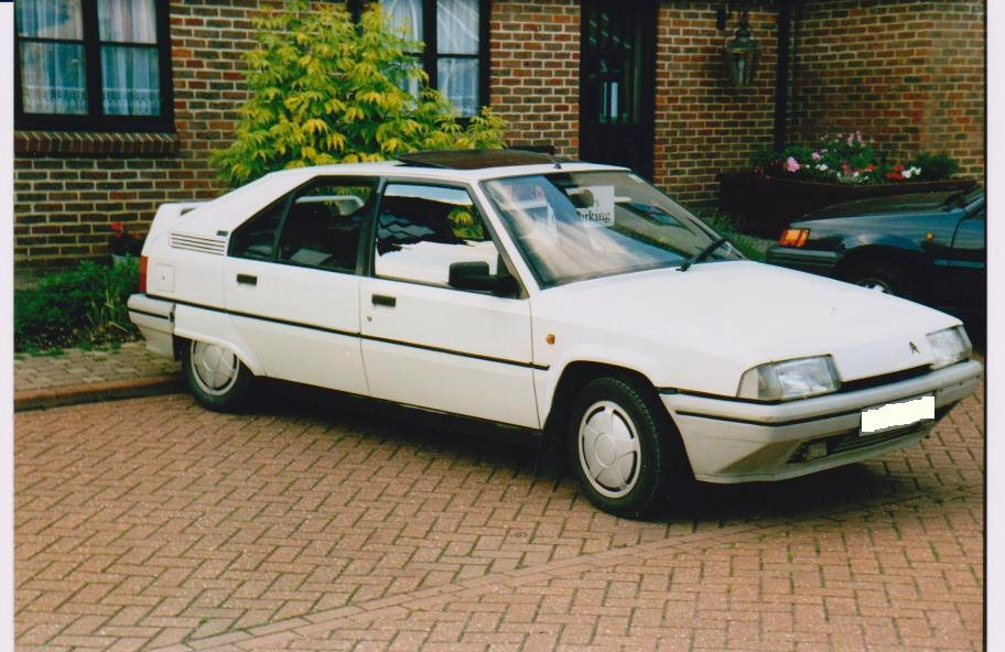 Citroen BX GTi